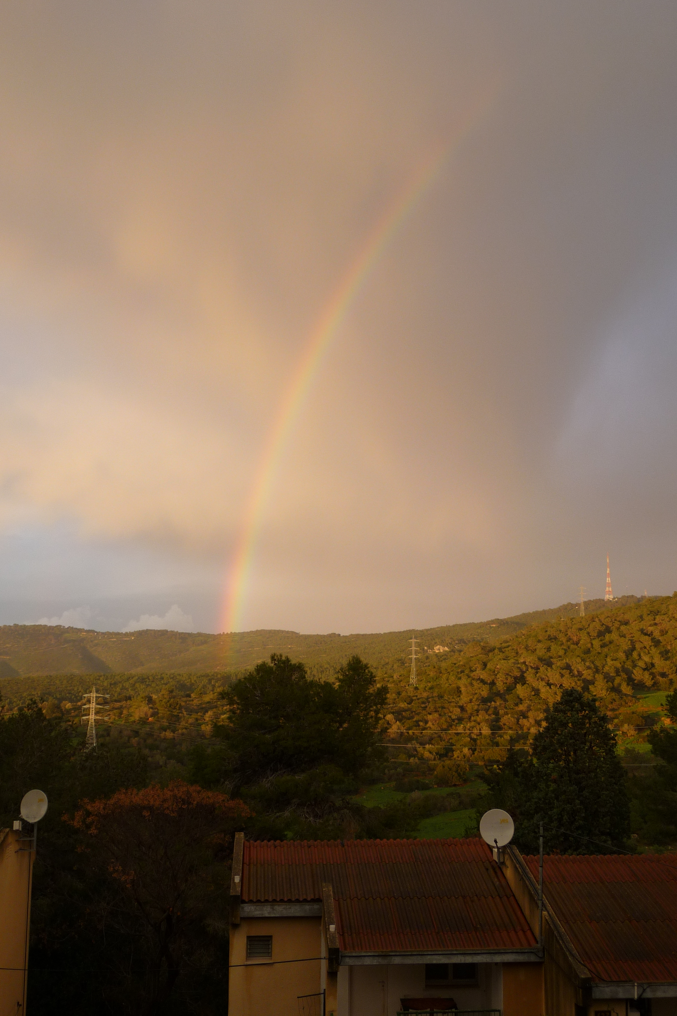 Beit Oren is a kibbutz in northern Israel. It falls under the jurisdiction of Hof HaCarmel Regional Council.